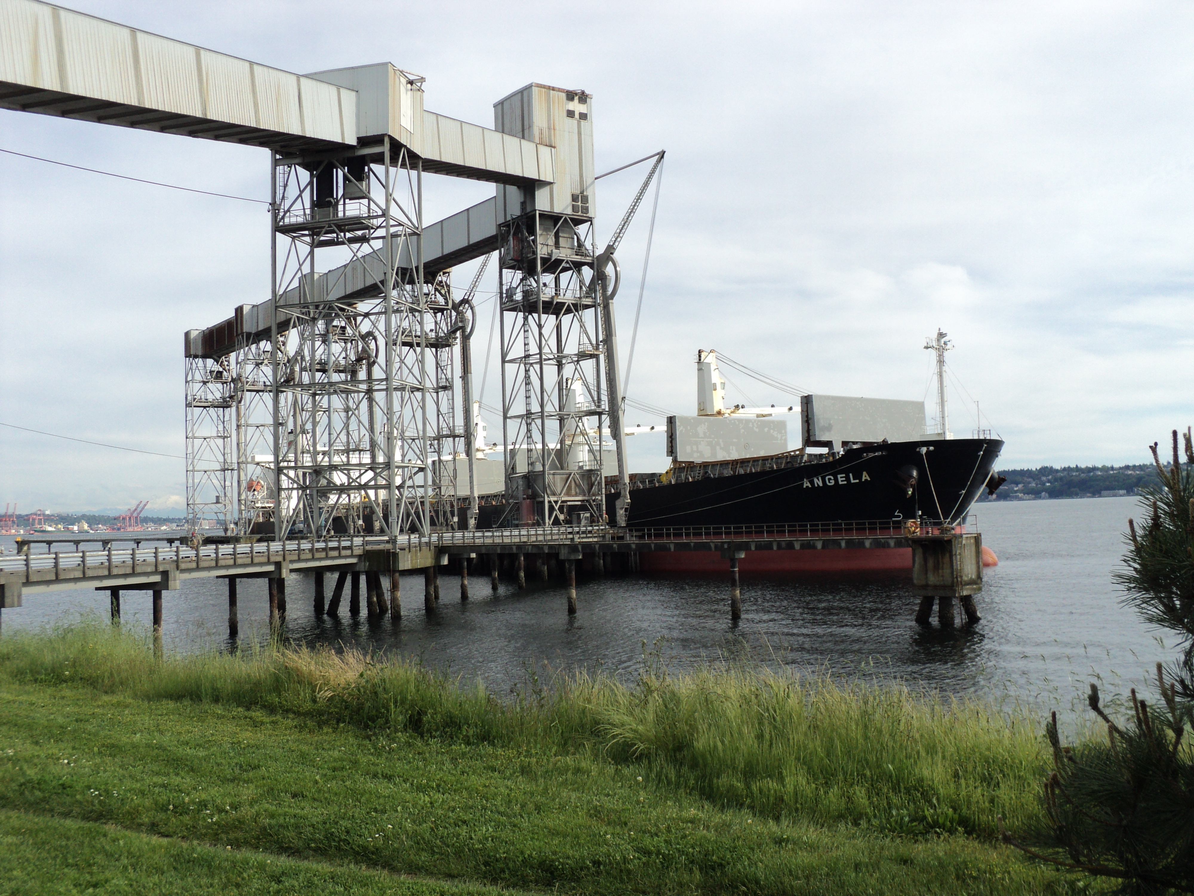 View of the Pier 86 Grain Terminal on Smith Cove along the waterfront, Seattle, Washington. The terminal is owned by the Port of Seattle, and operated by Cargill Inc. The ship is the ANGELA. IMO Number: 9274915 MMSI Number: 351327000 Callsign: H9IO Length: 190 m Beam: 32 m